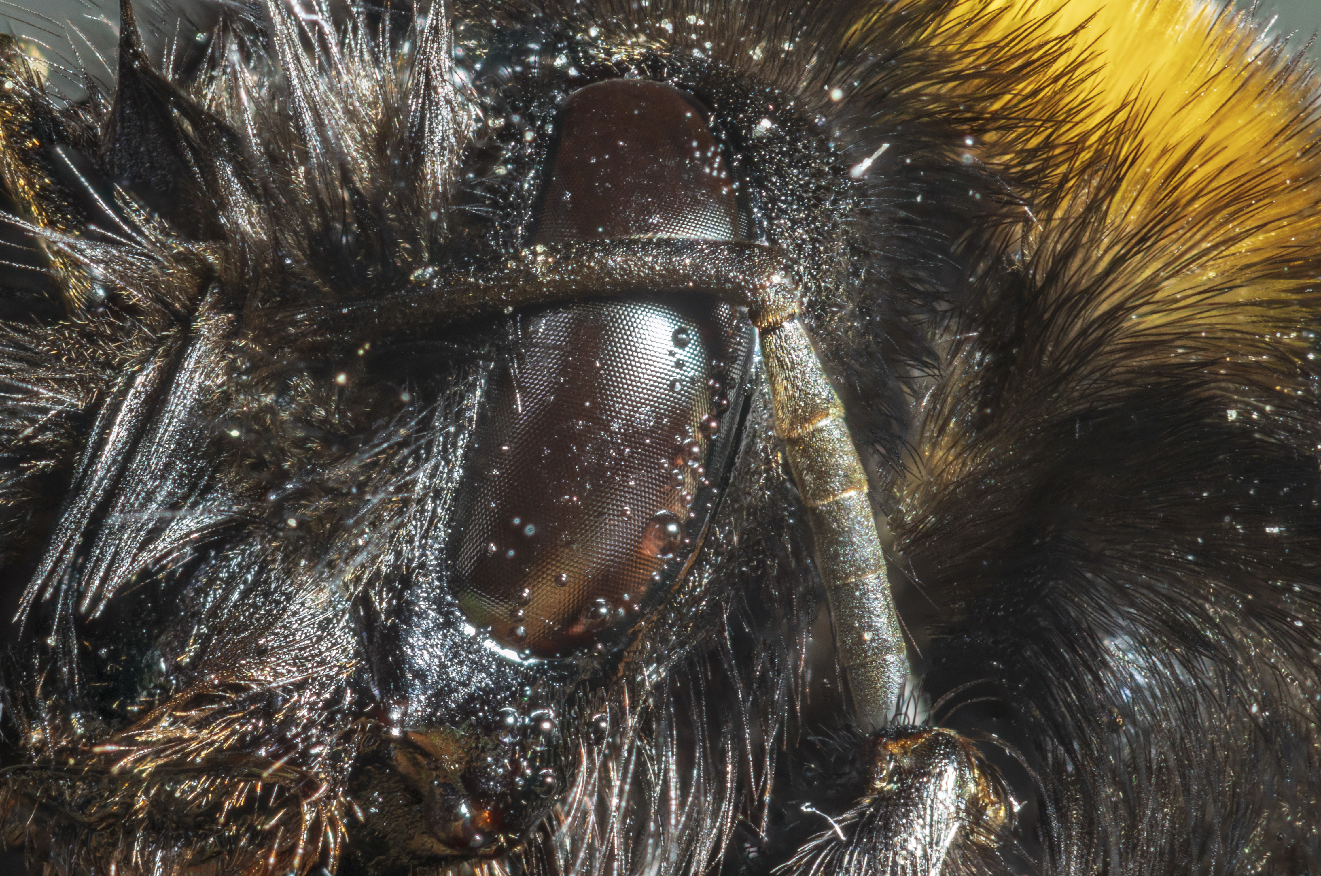 When zoomed, individual hexagonal units called ommatidia are visible.